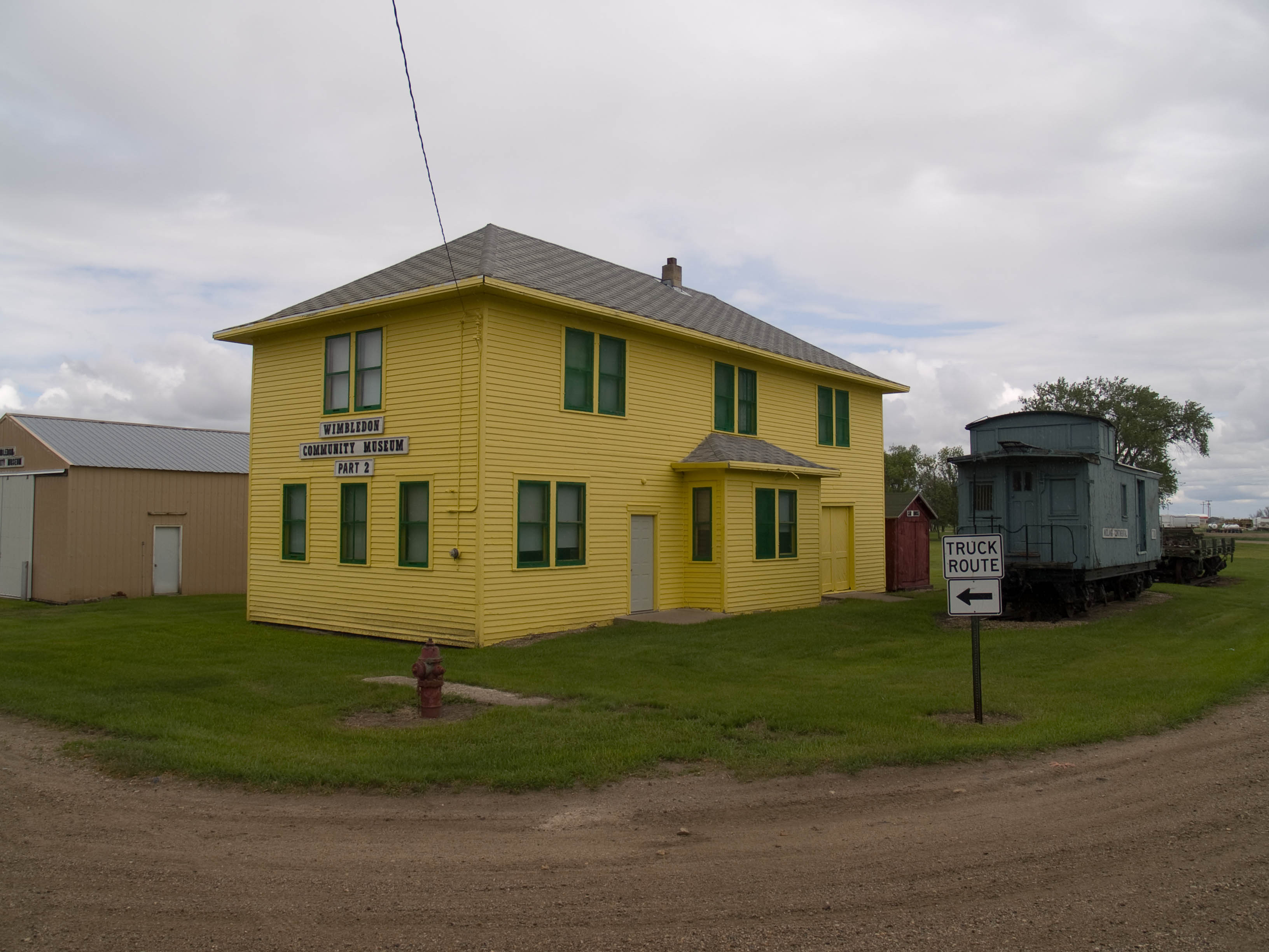 Midland Continental Railroad Depot in Wimbledon, North Dakota, listed on the National Register of Historic Places.